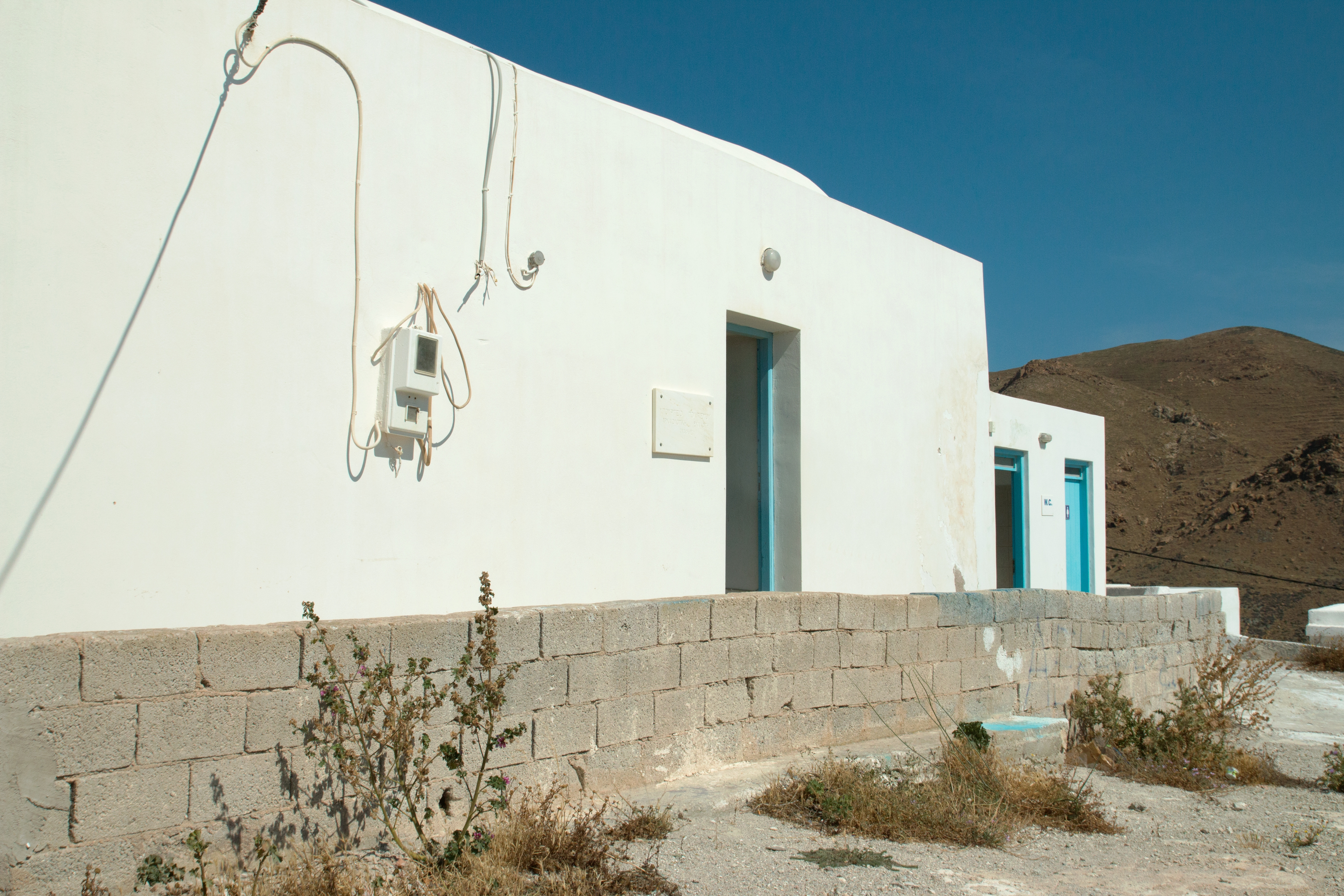 Building of the Local Archaeological Collection of Anafi. There must be no photography, but there is not much to regret. There is a warehouse of Roman torsos, probably from Kasteli.